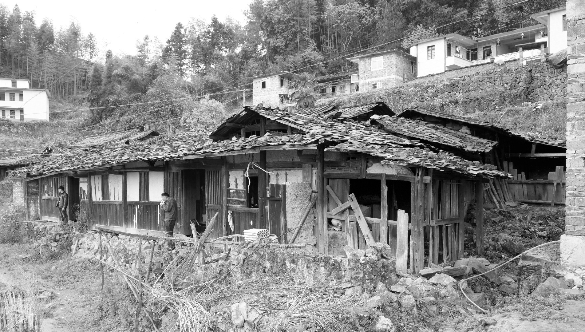 House where Ong Seok Kim was Born in 1884 Book: No Other Way Out - A Biography of Ong Seok Kim. PJ, Malaysia Authors: Wang Jianshi, Ong Eng-Joo Publisher:Strategic Information and Research Development Centre, 2013